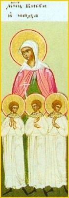 St. Bassa with her sons Theognis, Agapius and Pistus